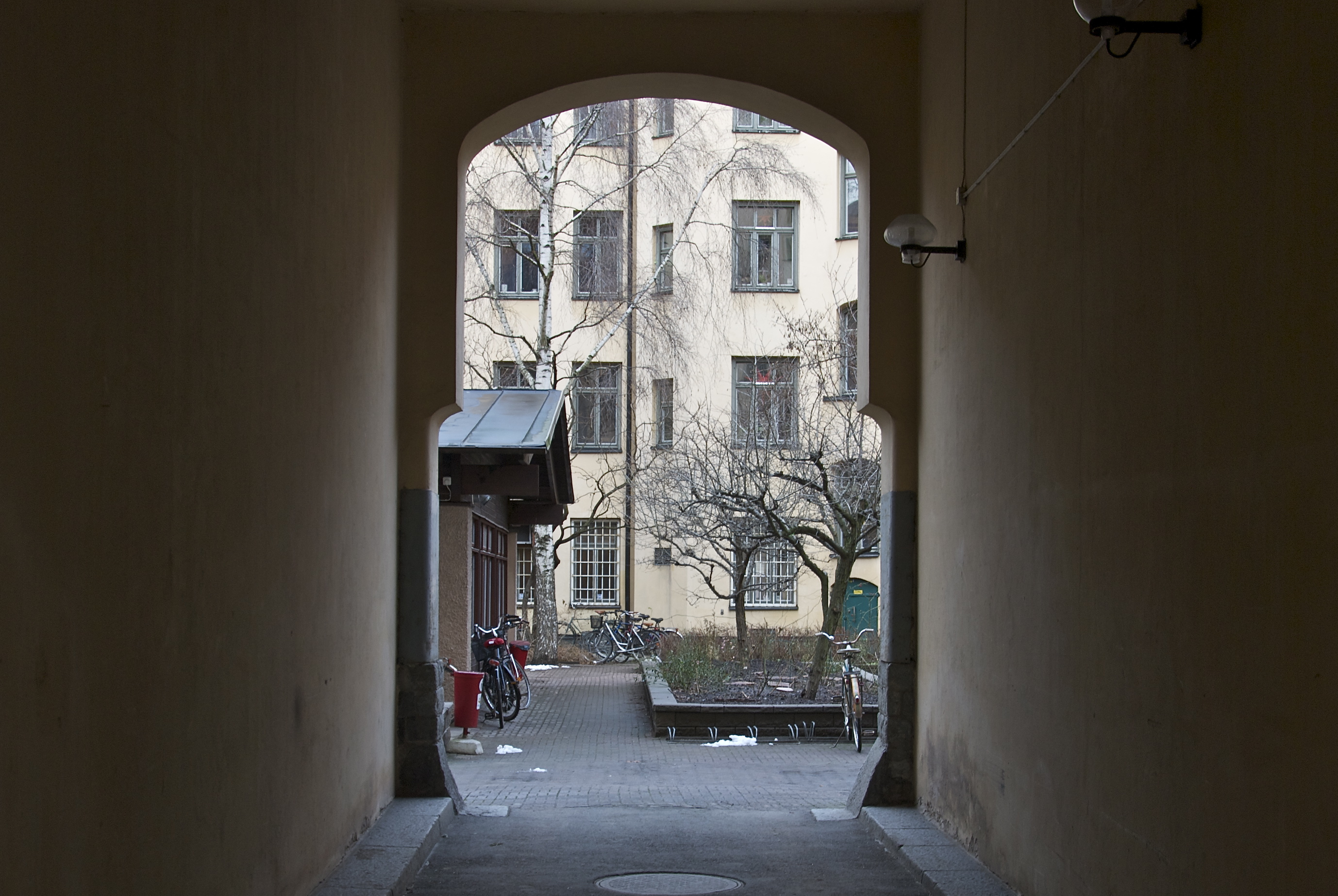 Kvarteretat Mullvarden första, January 2011